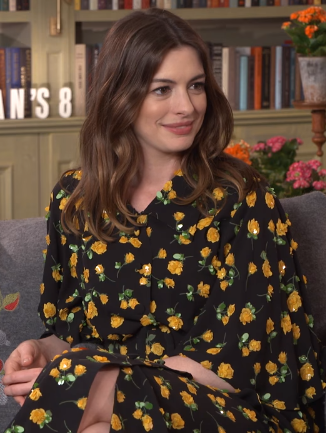 I don't show just anyone my signature dance moves, but when I do it's with Anne Hathaway and Mindy Kaling. Check out my new video to see my full interview with some of the cast of Ocean's 8! A huge thanks to Warner Brothers for the Opportunity :)